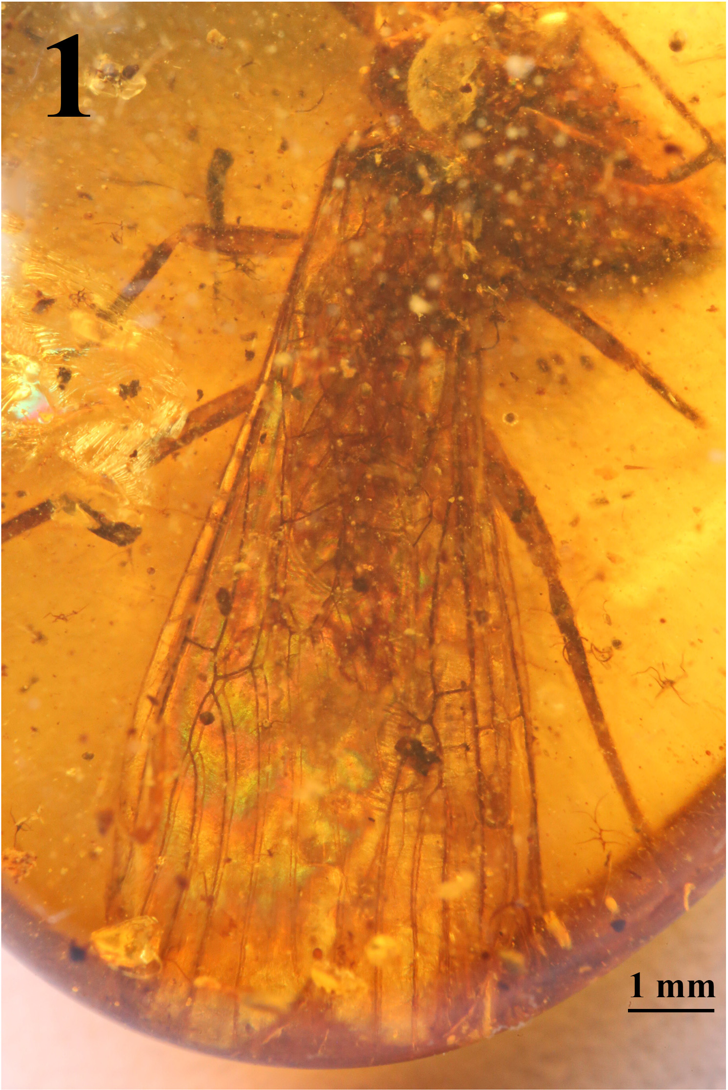 FIGURE 1–3. Largusoperla dewalti, Adult habitus, 1, dorsal view